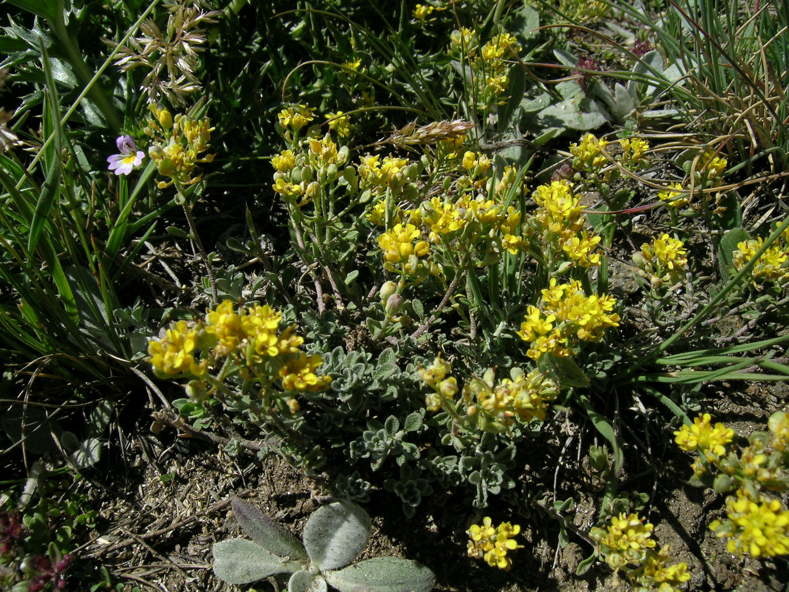 Alyssum alpestre Zermatt, beneath Gornergrat (Kanton Wallis, Switzerland), 2900 m Author: Roland Teuscher – own photograph Date: 3.08.06